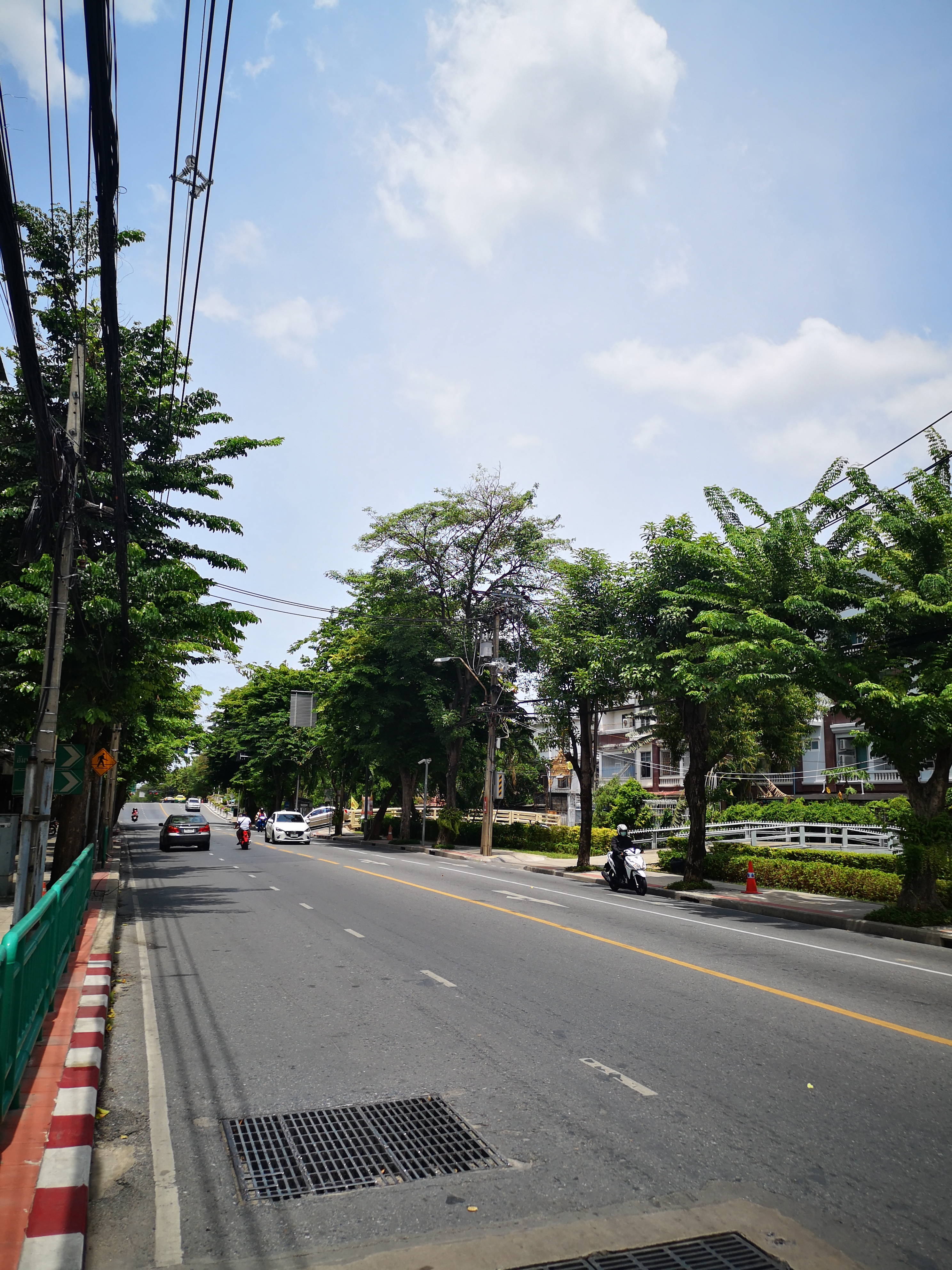 Rama V road